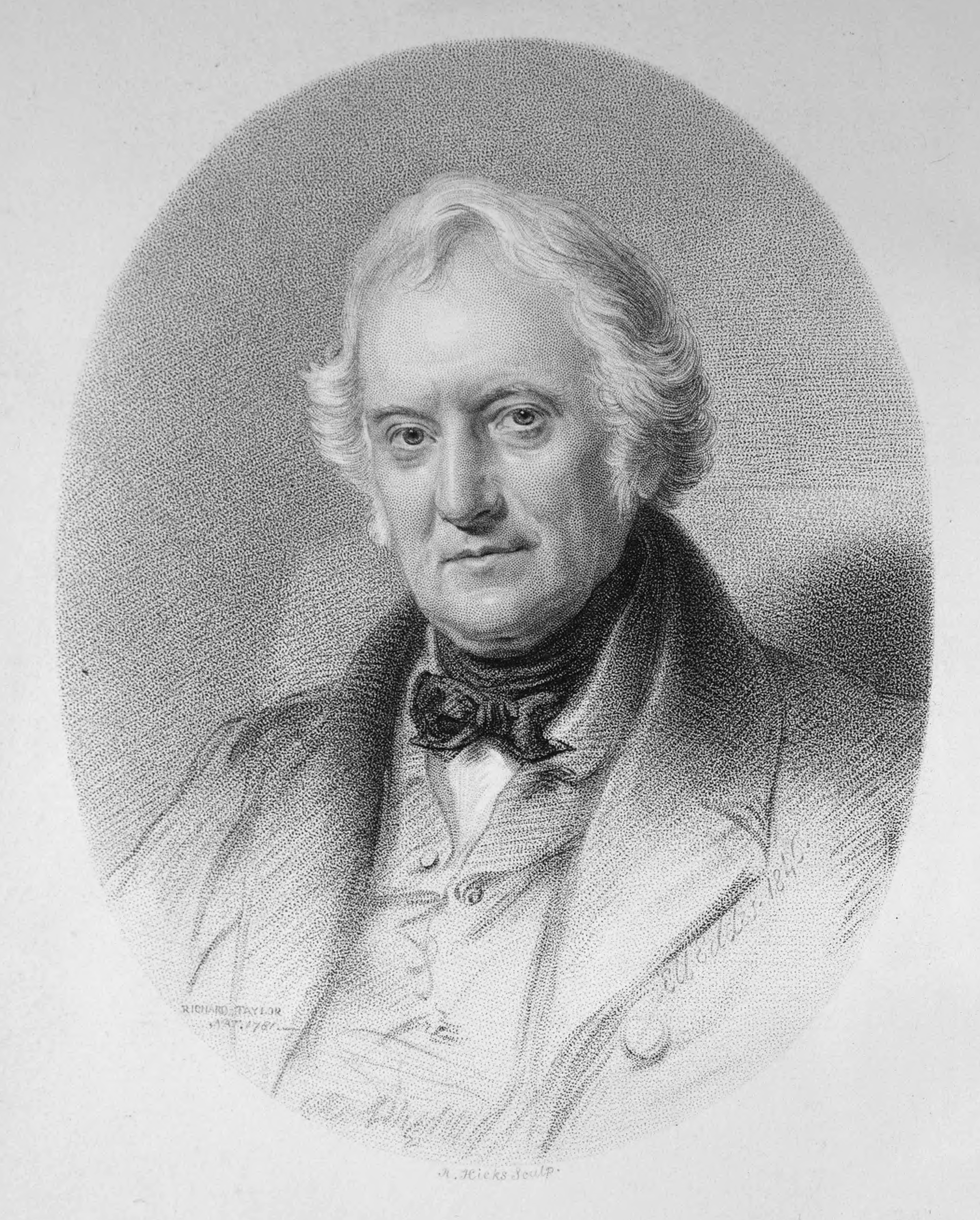 Engraved portrait of Richard Taylor (1781-1858) by Richard Taylor (1781–1858) after Eden Upton Eddis (1812-1901); Published by Francis & Taylor in 1860 in Annals and magazine of natural history : including zoology, botany and geology